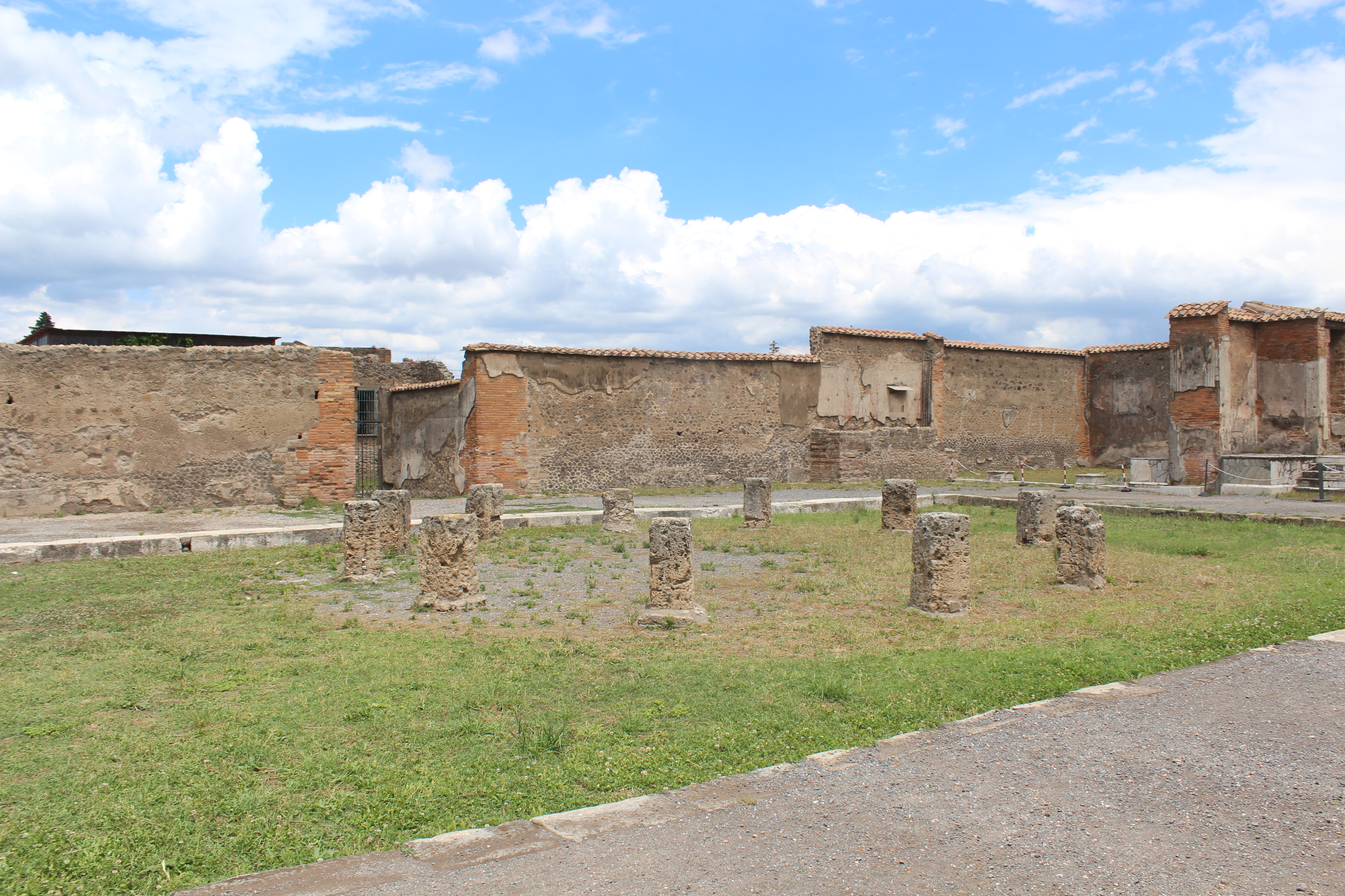 Macellum, Pompeii, Italy